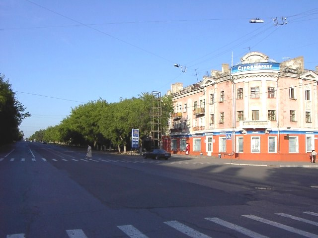 Lenin street, Karaganda, Kazakhstan